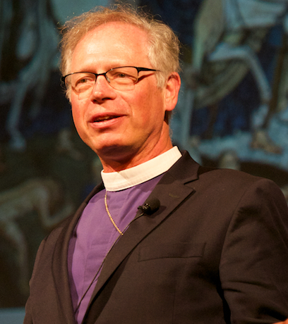 Episcopal Bishop Marc Andrus at 2017 Festival of Faiths